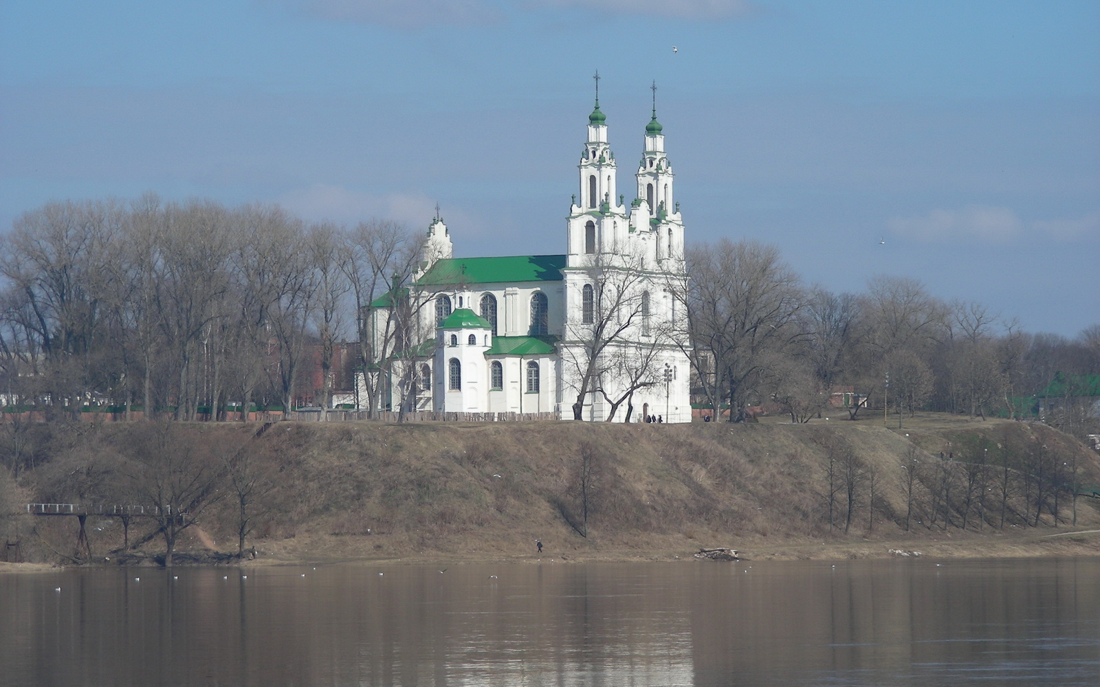 BELARUS / POLOTSK (Полацк). St Sophia cathedral.